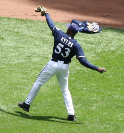 Stan Kyles warming up the starting pitcher at Miller Park in 2011.